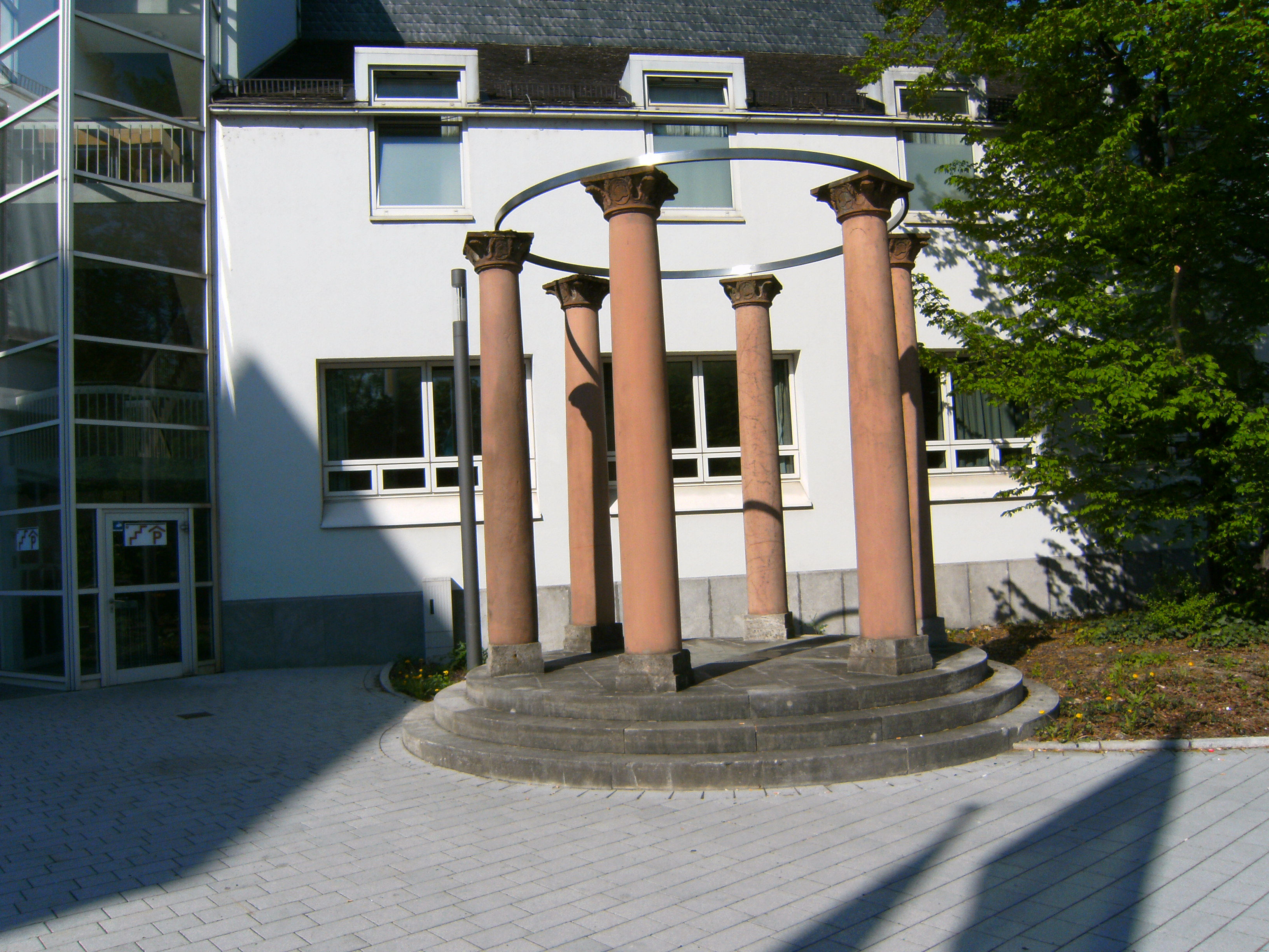 Würzburg, Germany, Kongresszentrum, Pleichertorstraße: Monument in honour of town twinning of Würzburg.